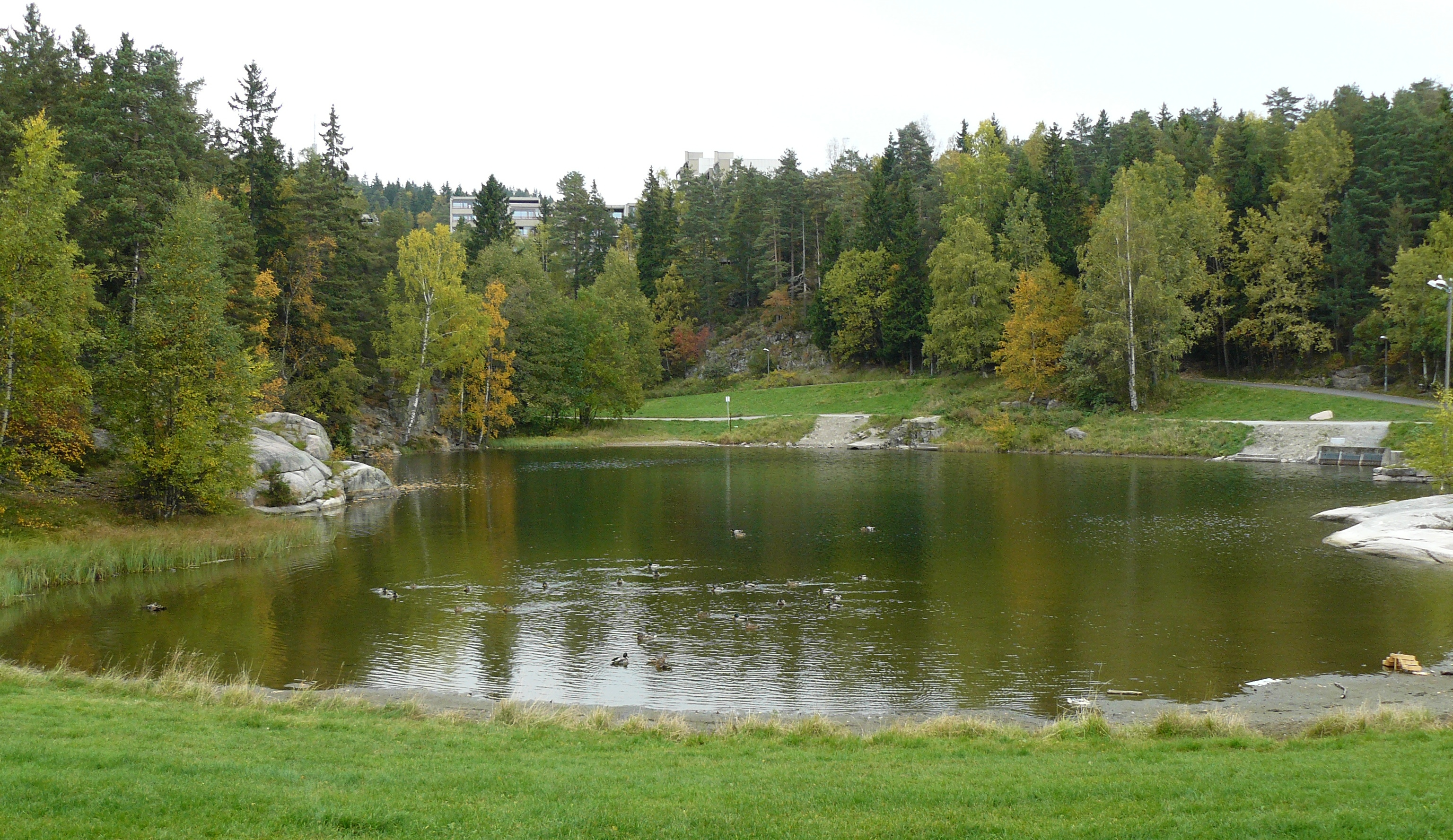 Svarttjern, Romsås, Oslo, Norway. A Lake within the buildings of the satellite town of Romsås.